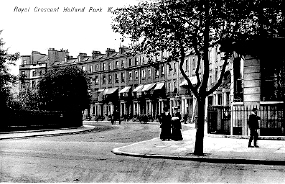 A postcard showing Royal Crescent in Holland Park West. The postcard belonged to Emily Pauline Johnson (1861-1913)